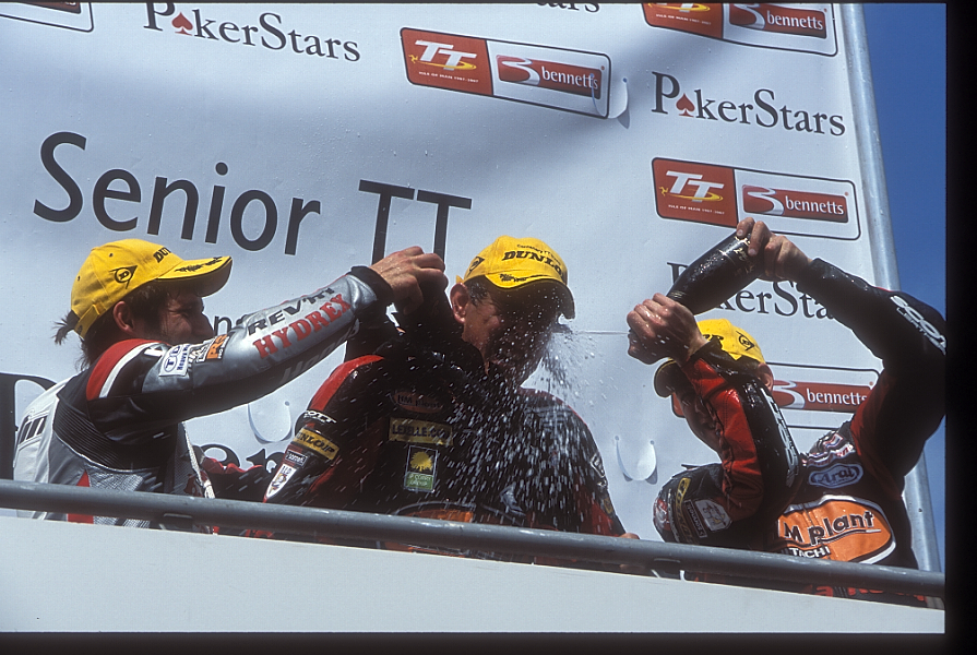 Senior TT Race 2007, Isle of Man.